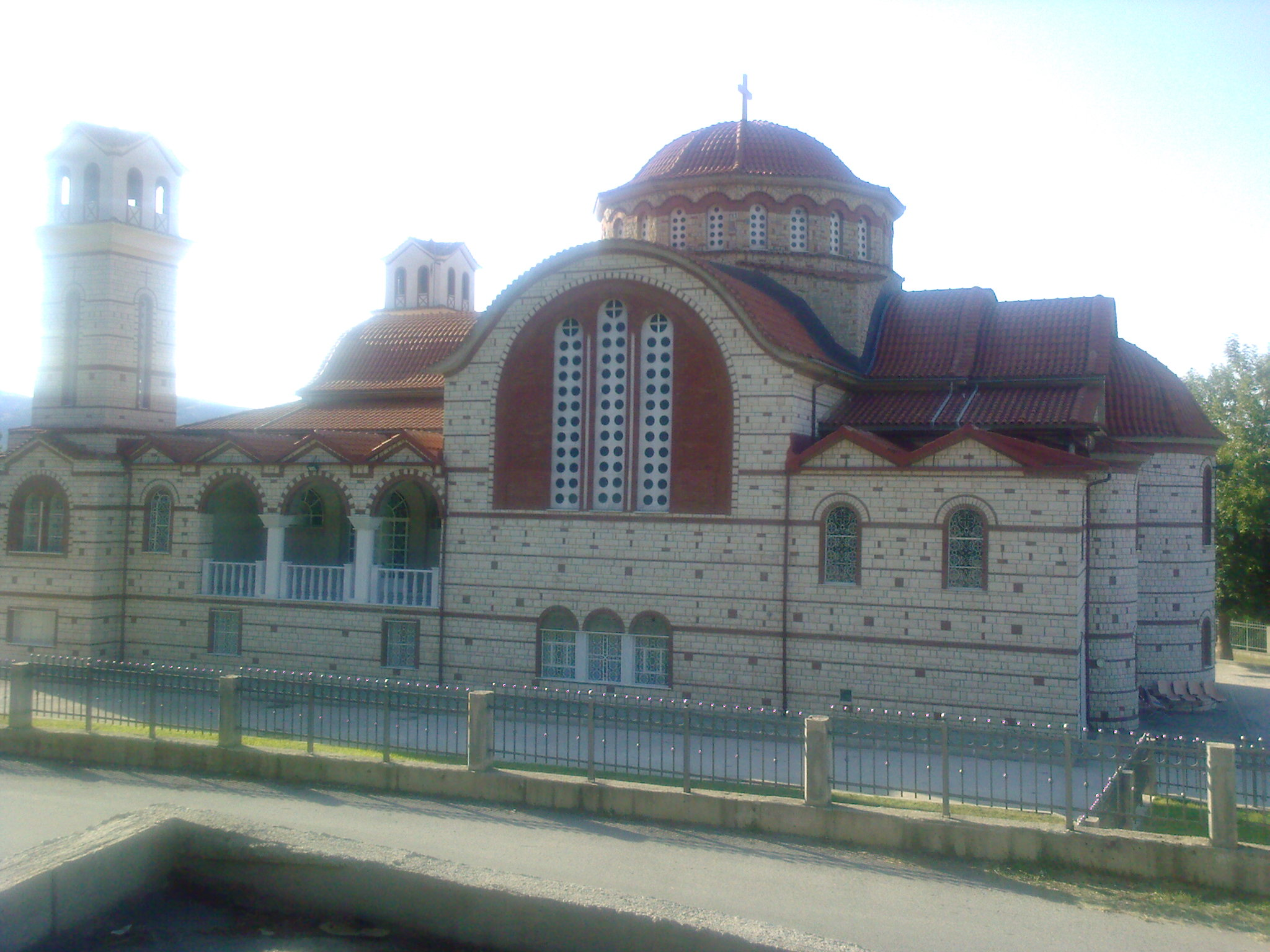 Church of Anarraxis/Debrets, Aegean Macedonia, Greece